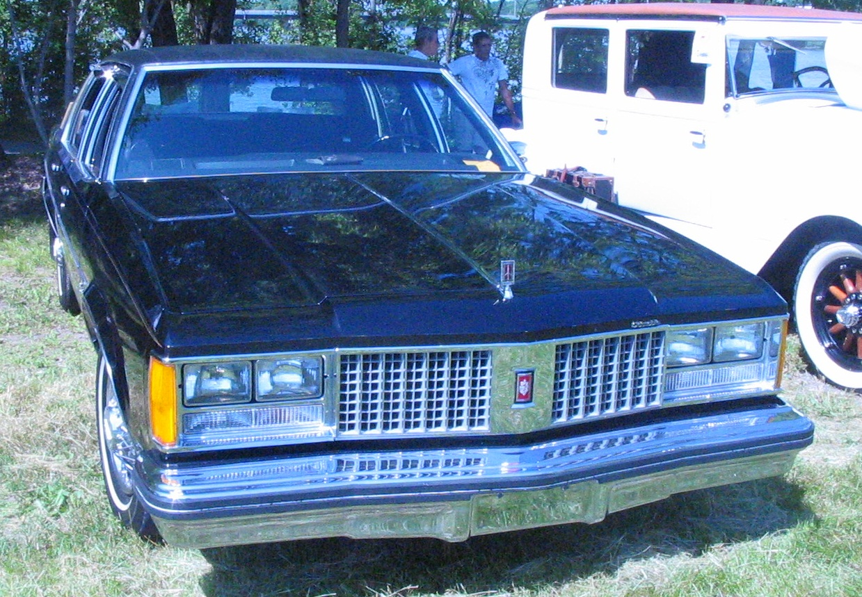 1979 Oldsmobile 98 photographed in Laval, Quebec, Canada at the Auto classique Laval.